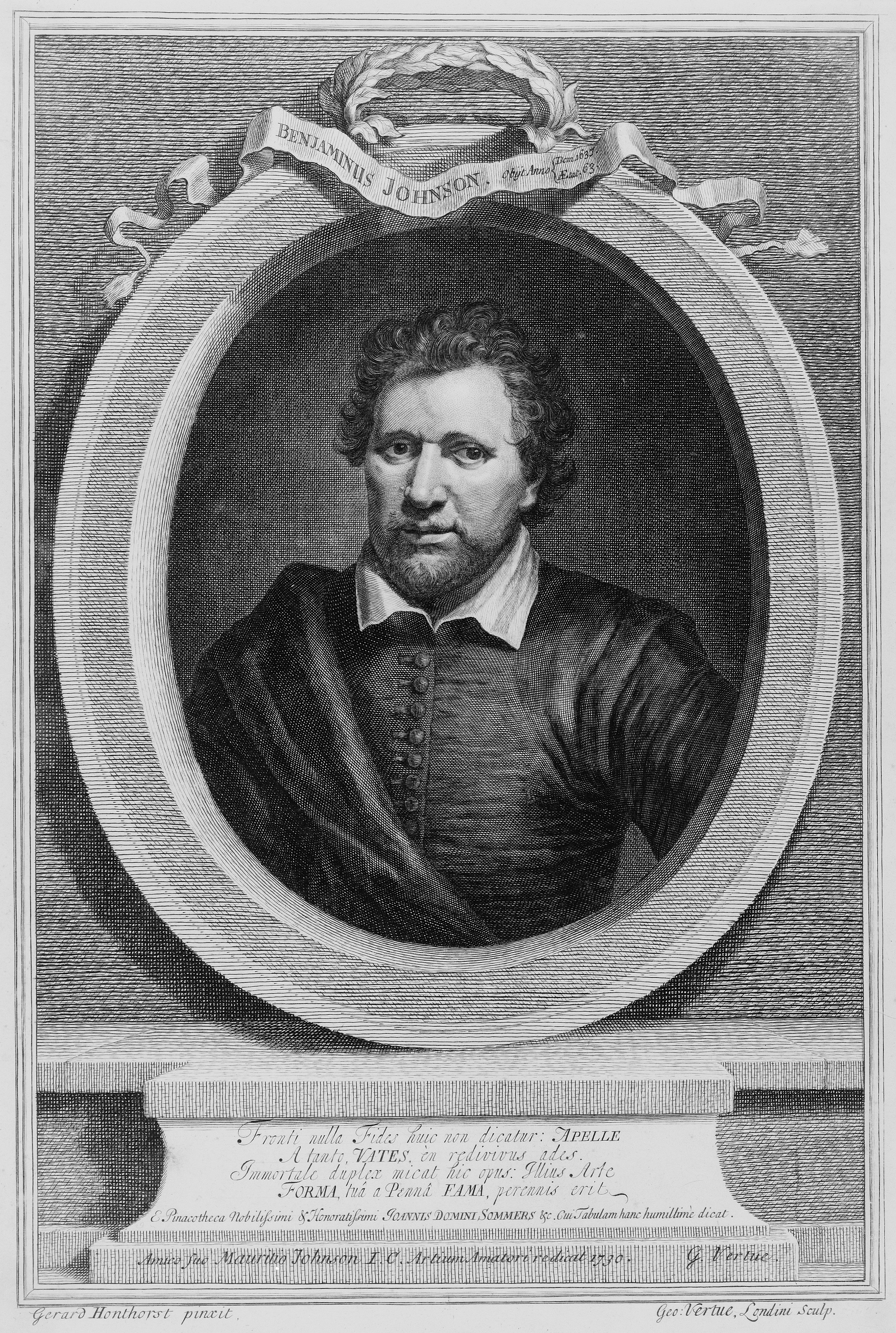 English playwright, poet, and actor Ben Jonson (1572-1637) by George Vertue (1684-1786) after Gerard van Honthorst (1590-1656)